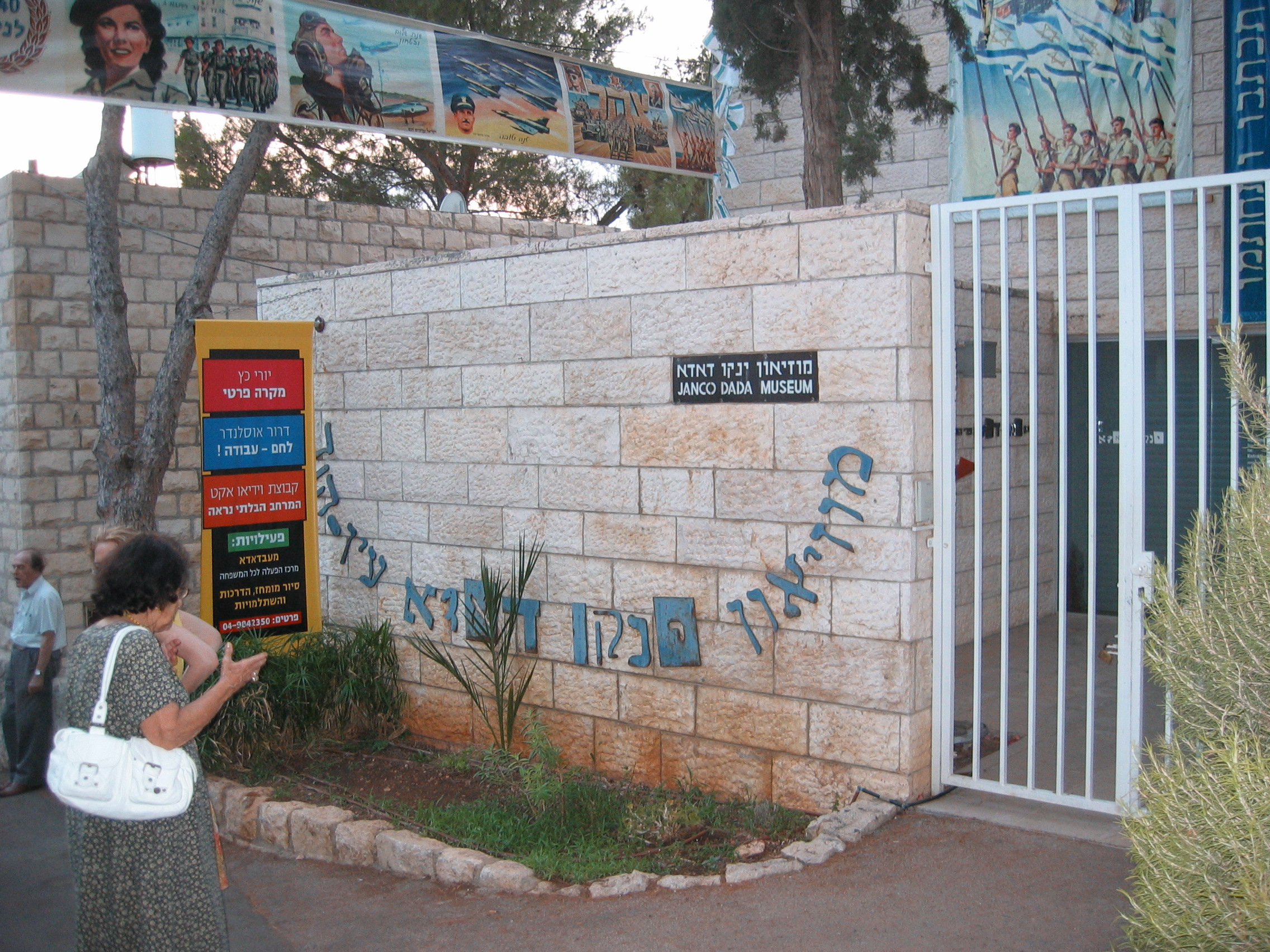 The entrance to the Dada museum in En Hod, Israel.